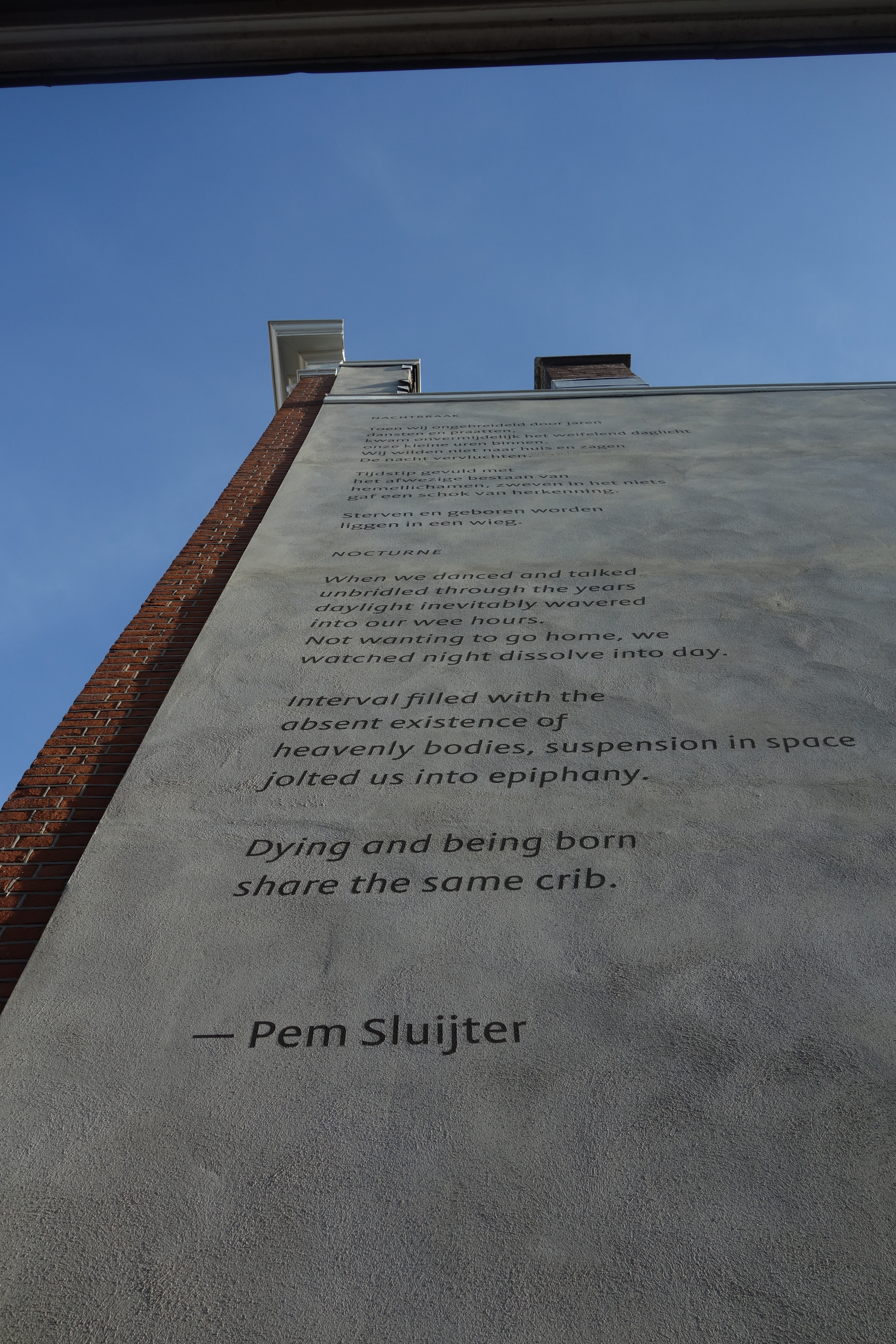 Nachtbraak / Nocturne by Dutch poet Pem Sluijter. Wall poem, Bantanstraat, The Hague (the Netherlands) 2018